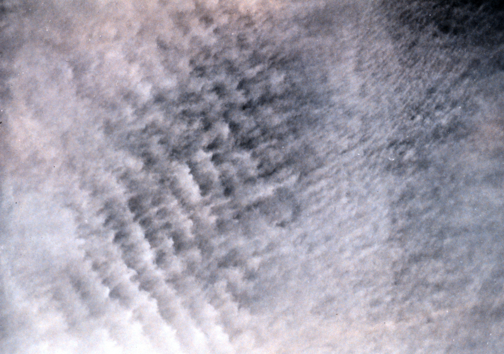 Altocumulus stratiformis translucidus lacunosus undulatus clouds over Cheyenne, Wyoming